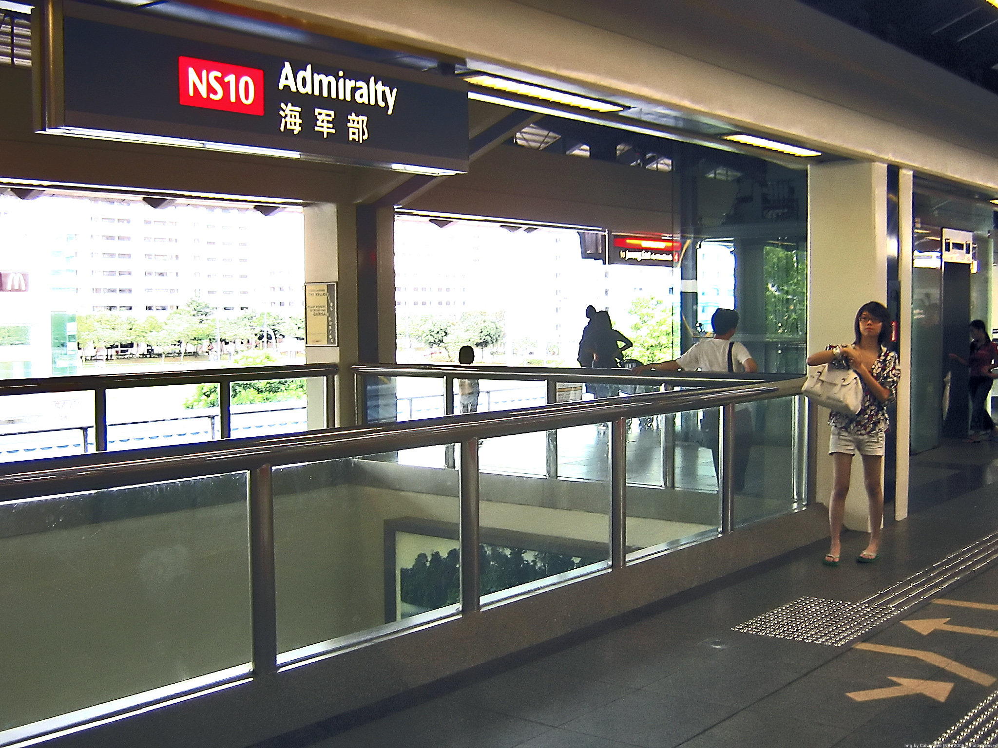 A view of NS10 Admiralty Station, along the North South Line of the Singapore MRT.